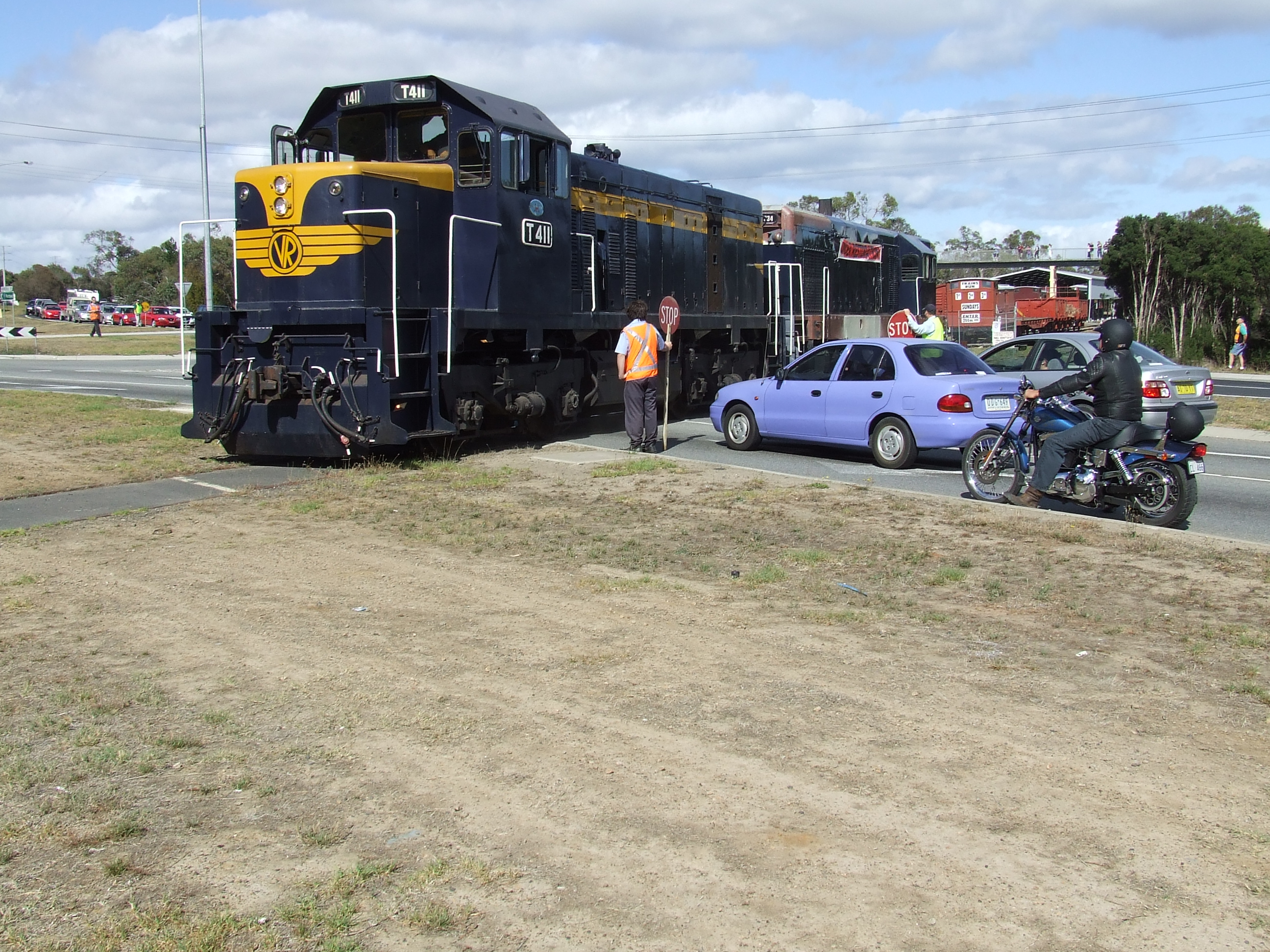 Photograph of a diesel train crossing Moorooduc Highway, near Moorooduc railway station, Melbourne.